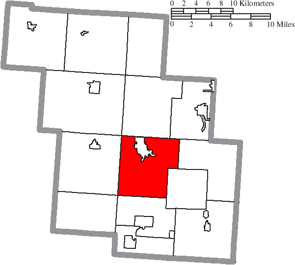 Map of the municipal and township boundaries of Perry County, Ohio, United States, as of the 2000 census, with the location of Pike Township highlighted. Township borders are shown only in unincorporated areas in order to differentiate incorporated and unincorporated areas more clearly.